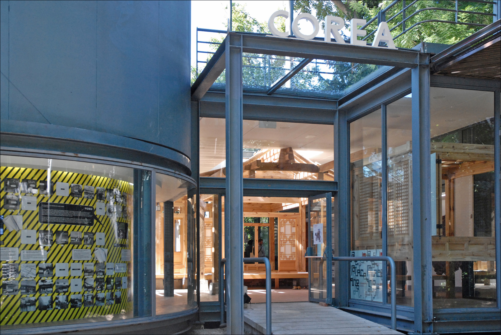 RE•PLACE•ING: documentary of changing metropolis Seoul Cho Junggoo, Hah Tesoc, Lee Chungkee, Lee Sangkoo , Shin Seungsoo Commissario: Kwon Moon-Sung. Sede: Padiglione ai Giardini Le pavillon de Corée a su allier tradition architecturale et modernité. Mostra Internazionale di Architettura Exposition internationale d'architecture Venezia / Venise "People meet in architecture" du 29/08 au 21/11/2010 le site de la Biennale